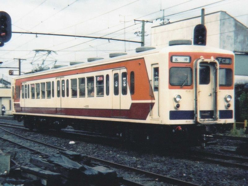 Joshin Railway, EMU Type 205 At Joshu-Tomioka Sta. 1991年頃撮影 Photo by Cassiopeia_sweet.